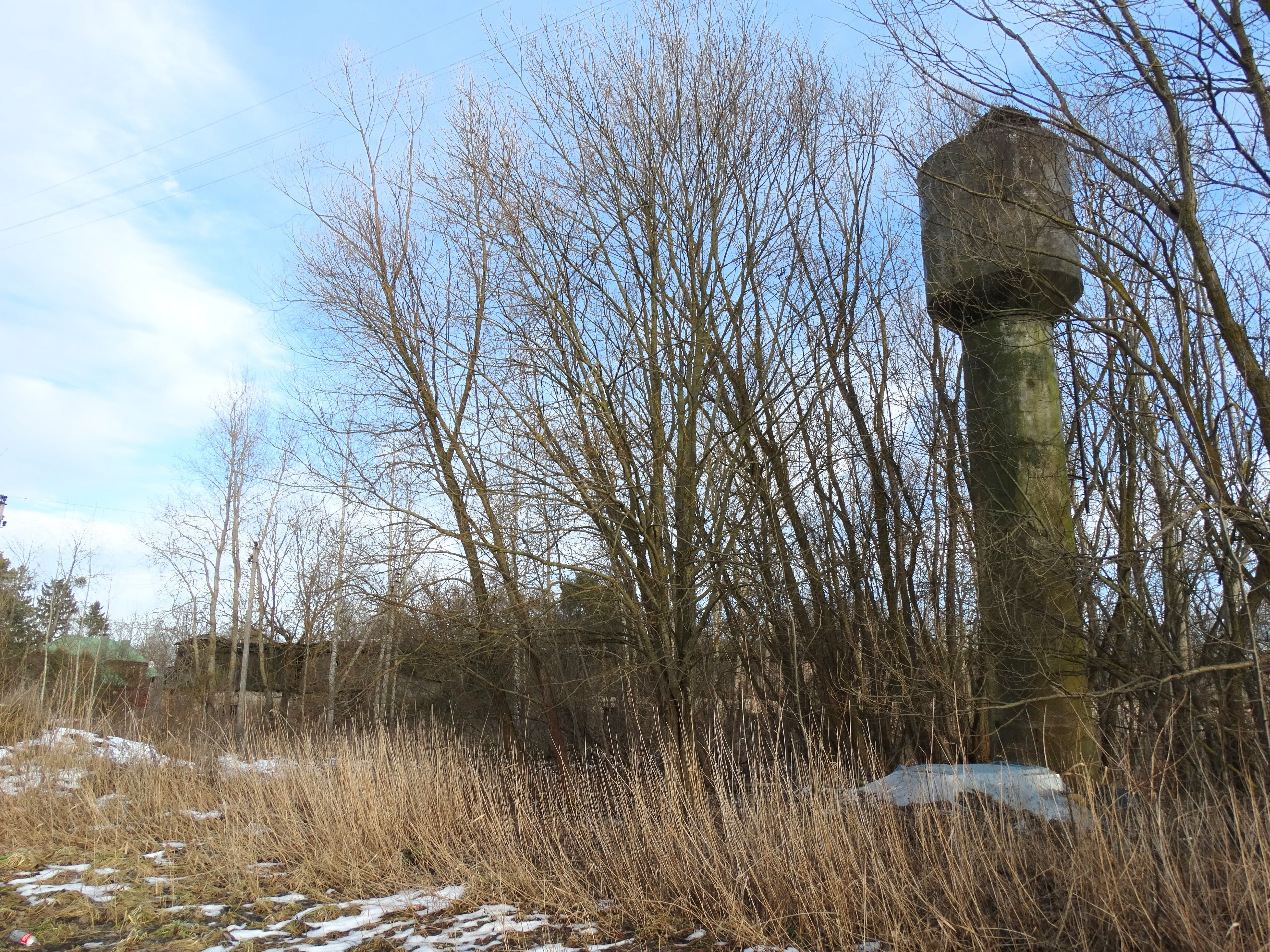 Jonučiai II, Kaunas district, Lithuania